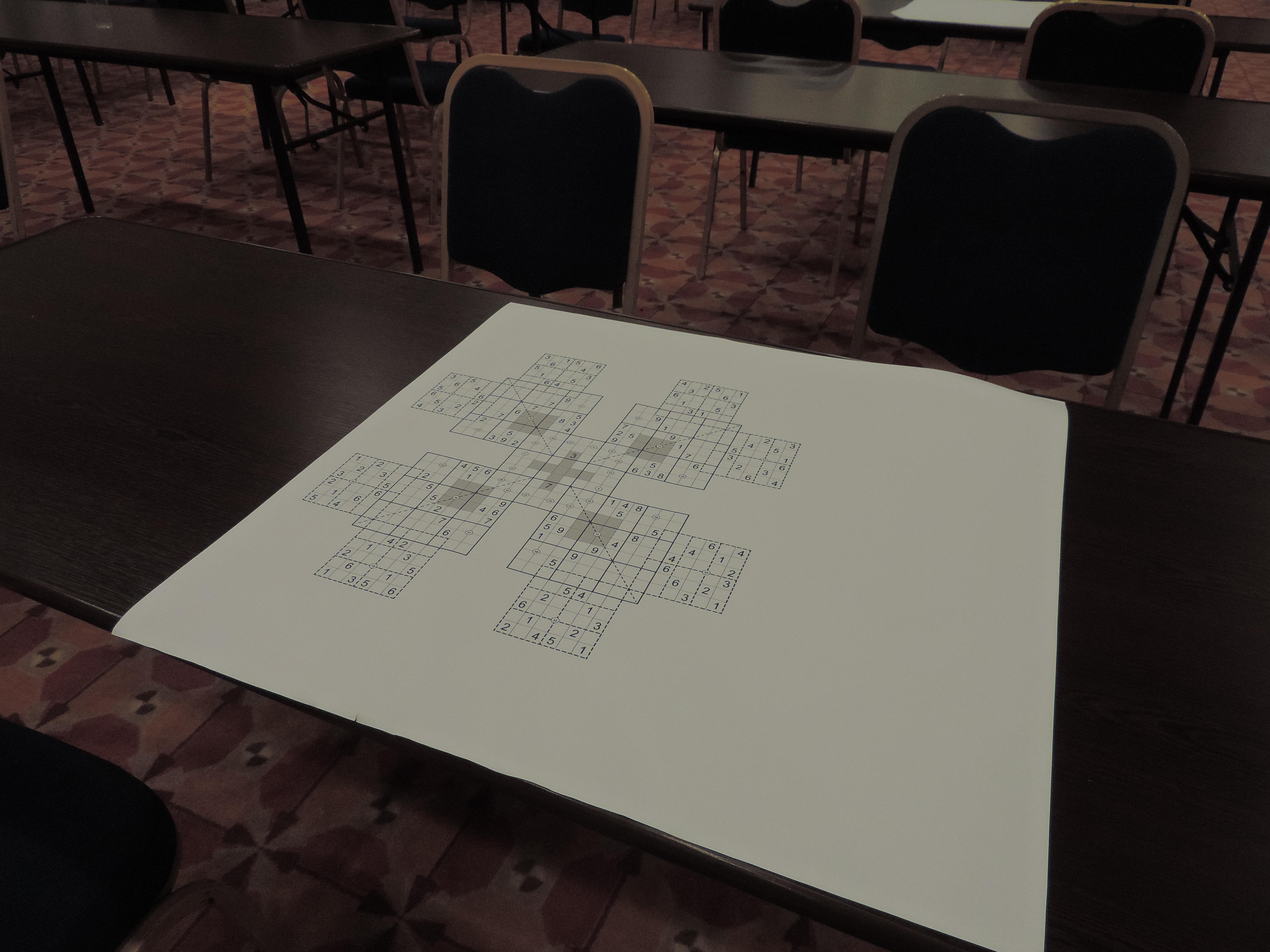 World Sudoku Championship 2015 Sofia, Bulgaria